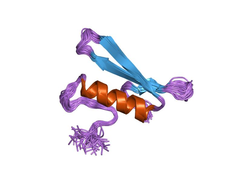 Cartoon representation of the molecular structure of protein registered with 3gcc code.